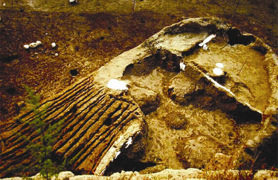 In Old Bronze Age (3800 BP) village of Nola, the mold of one of a group of huts found partially buried, its interior, including pottery, perfectly preserved.